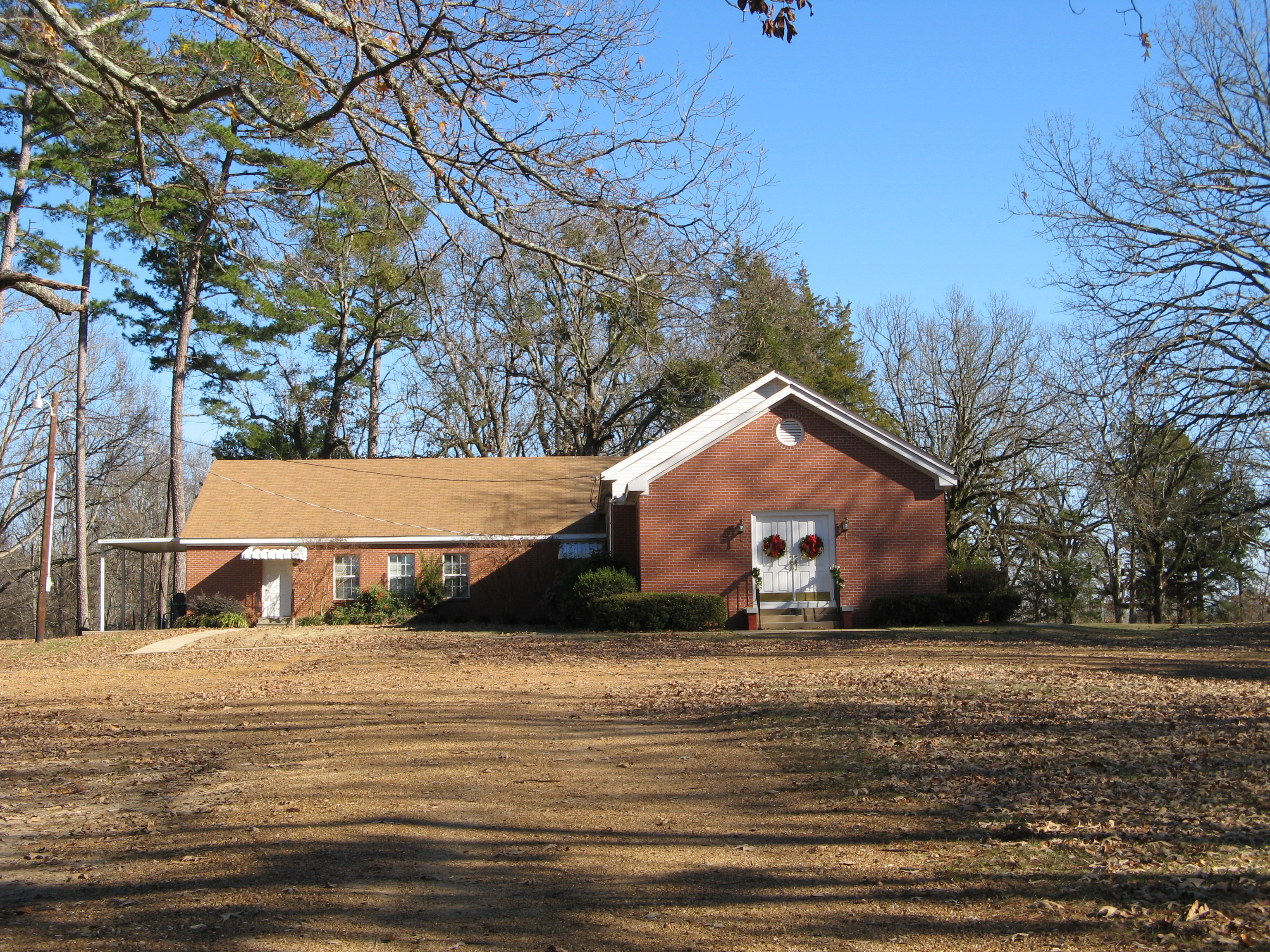 Oregon Memorial Church, Holmes County, Mississippi.